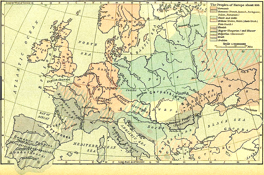 Europe, 900